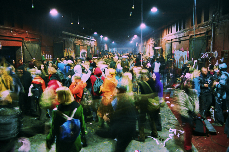 EuroMayDay afterparty at VR Warehouses